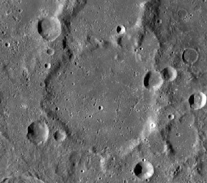 LRO-WAC mosaic. Kästner is the roughly elliptical formation in the center. The continuation at the top is Kästner G.